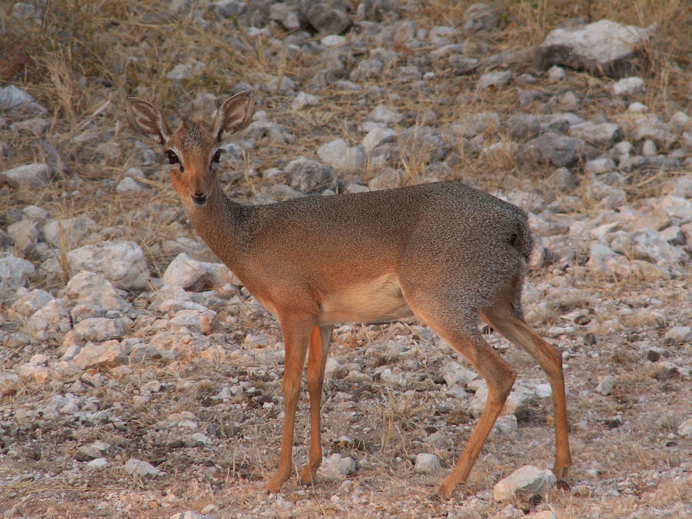 Kirk's Dik-dik, Madoqua kirki, Etoscha National park, Namibia